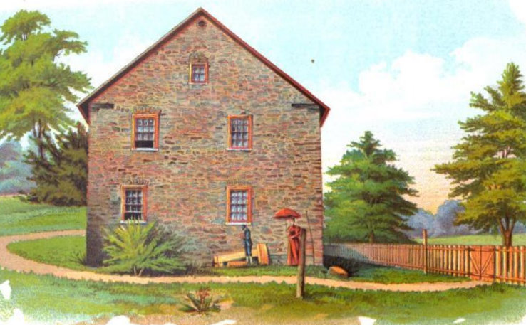 Engraving of Fort Deshler as it appeared in 1895